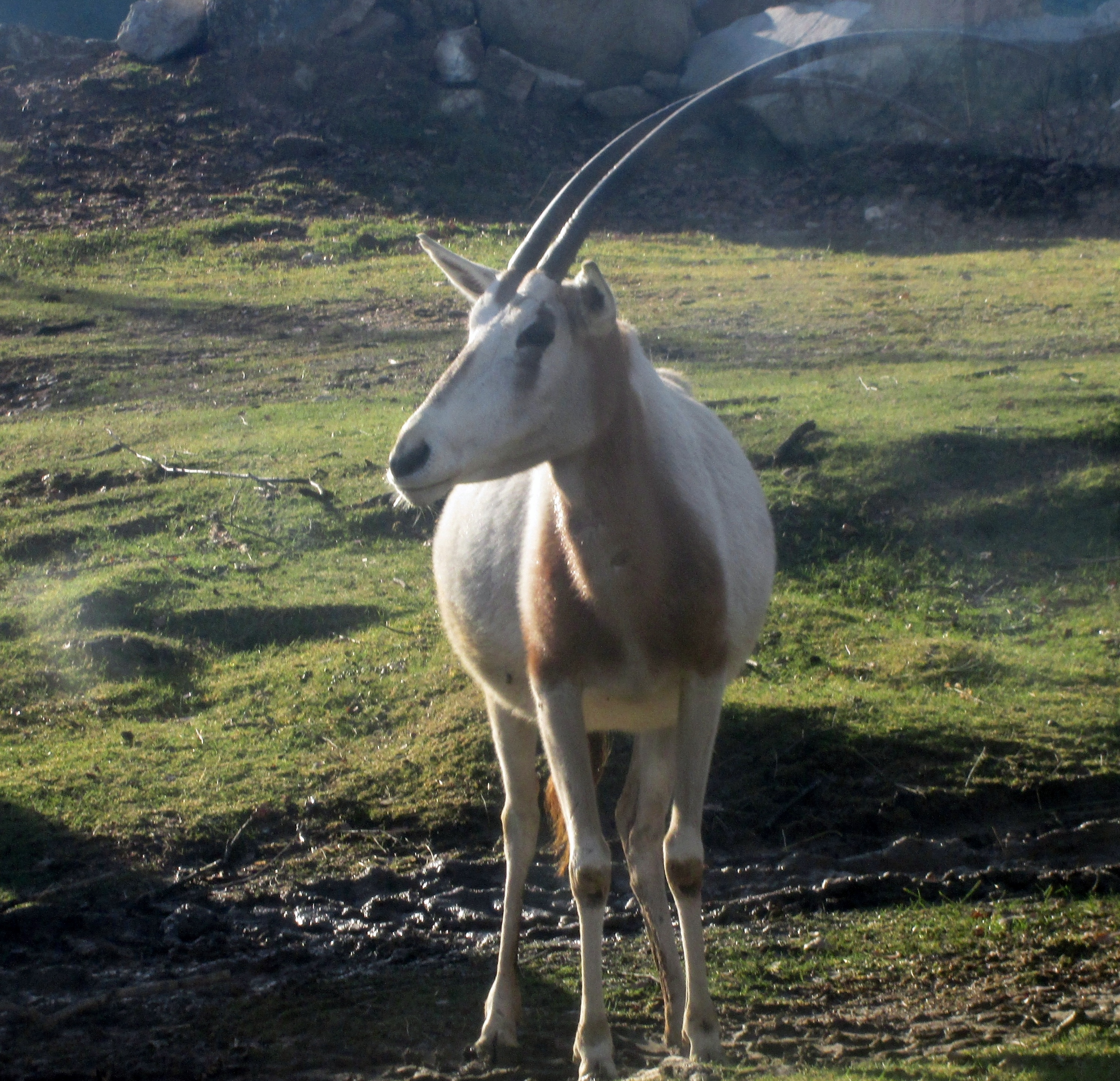 Scimitar oryx at Pombia Safari Park ITALY